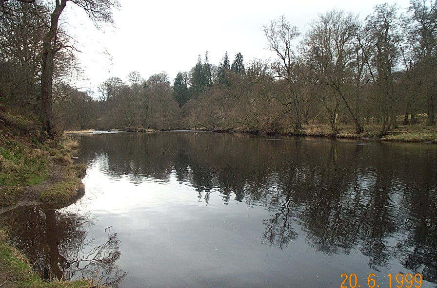 River Teith: the "Castle Pool" about 2km downstream from Doune.